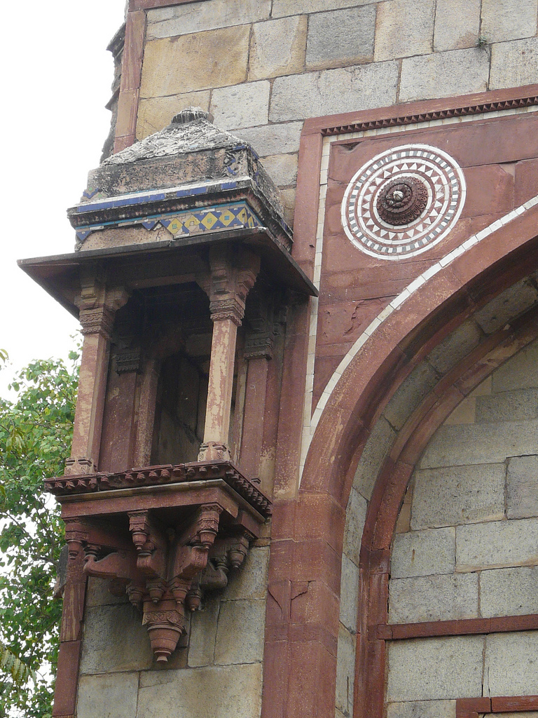 A Jharokha or Oriel window on the gate of the Arab Sarai (Arab Guesthouse) in the Humayun Tomb's Complex